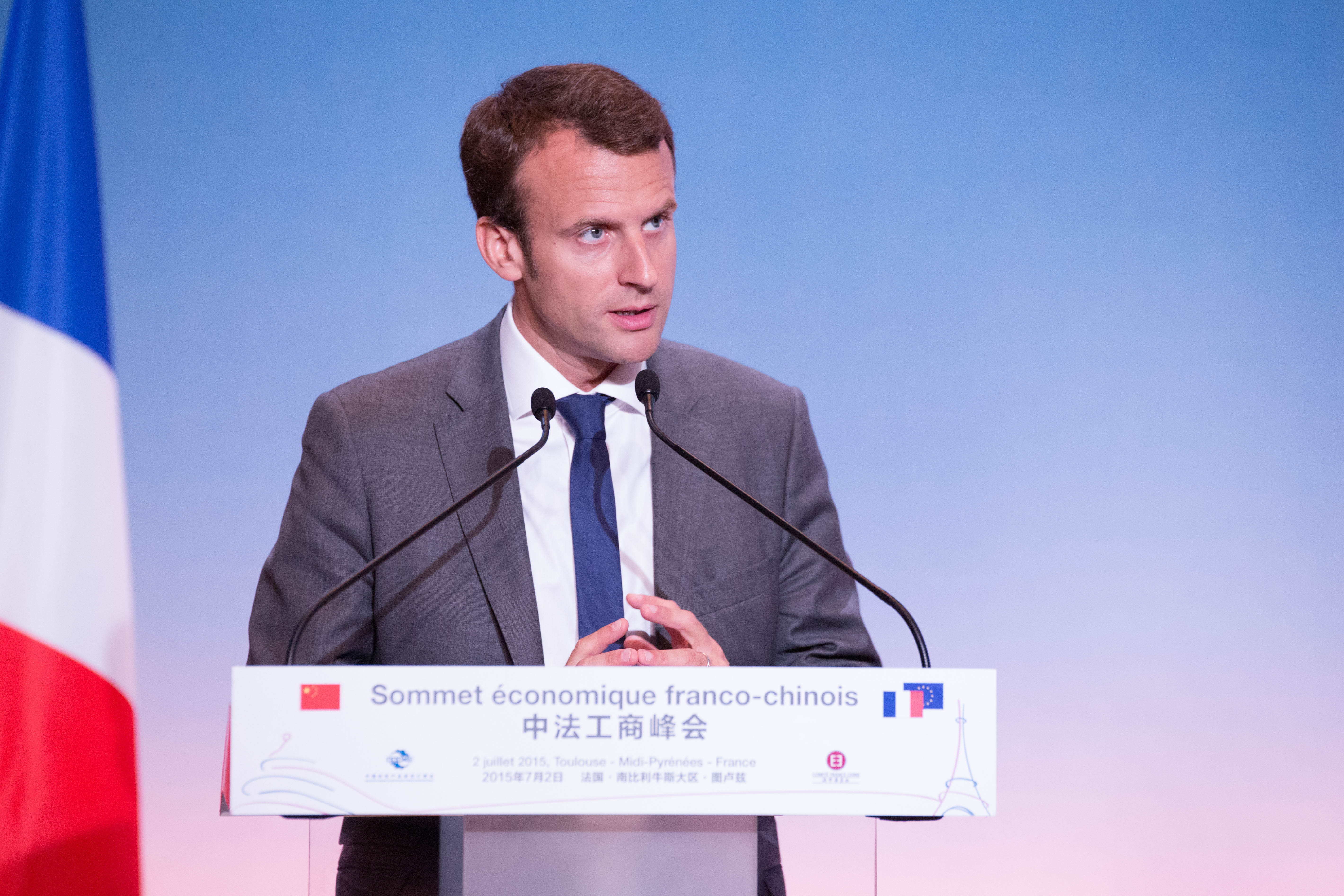 Emmanuel Macron at Sommet économique franco-chinois